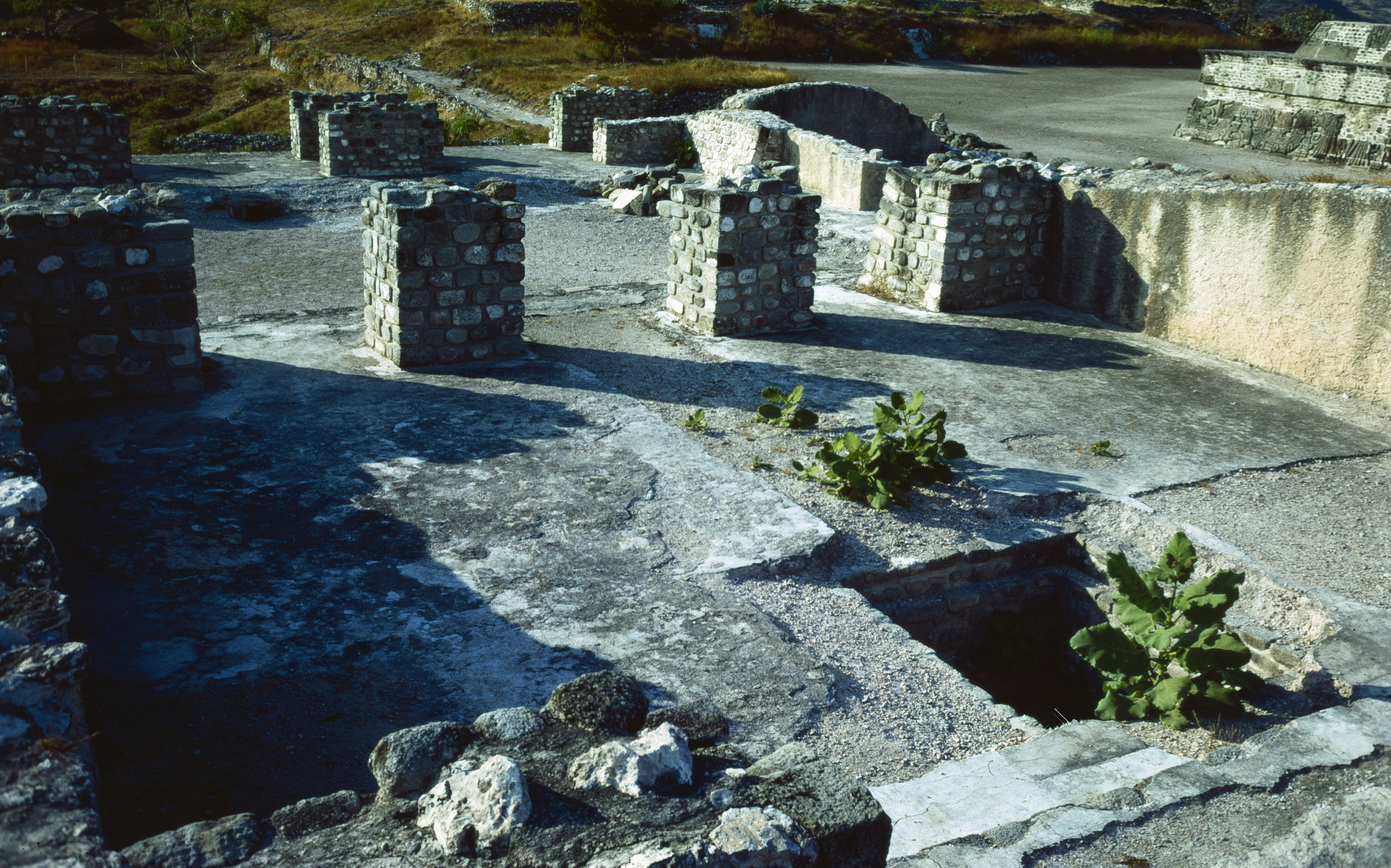 Xochicalco, Morelos, Mexico: Templo de los tres glifos